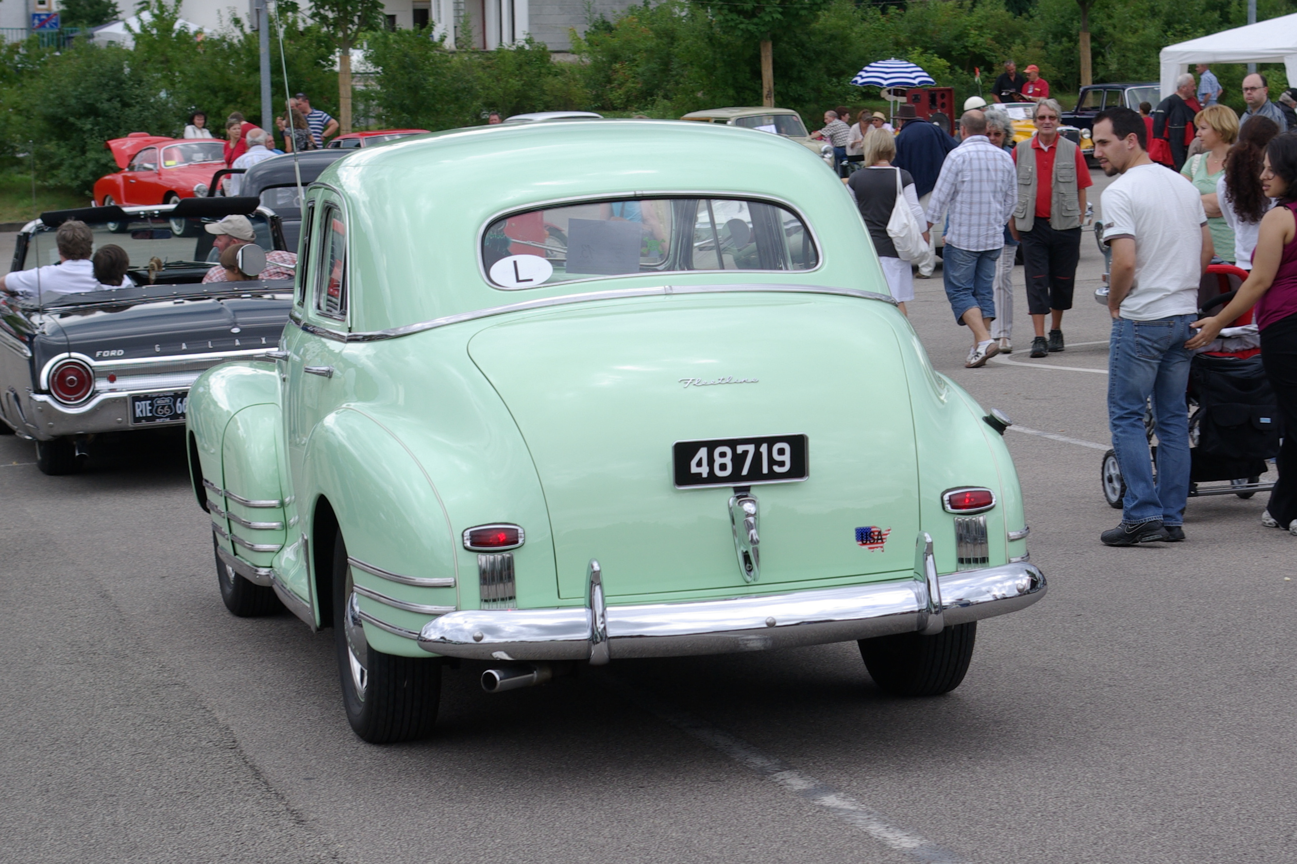 1948 Chevrolet Fleetline, 100 HP